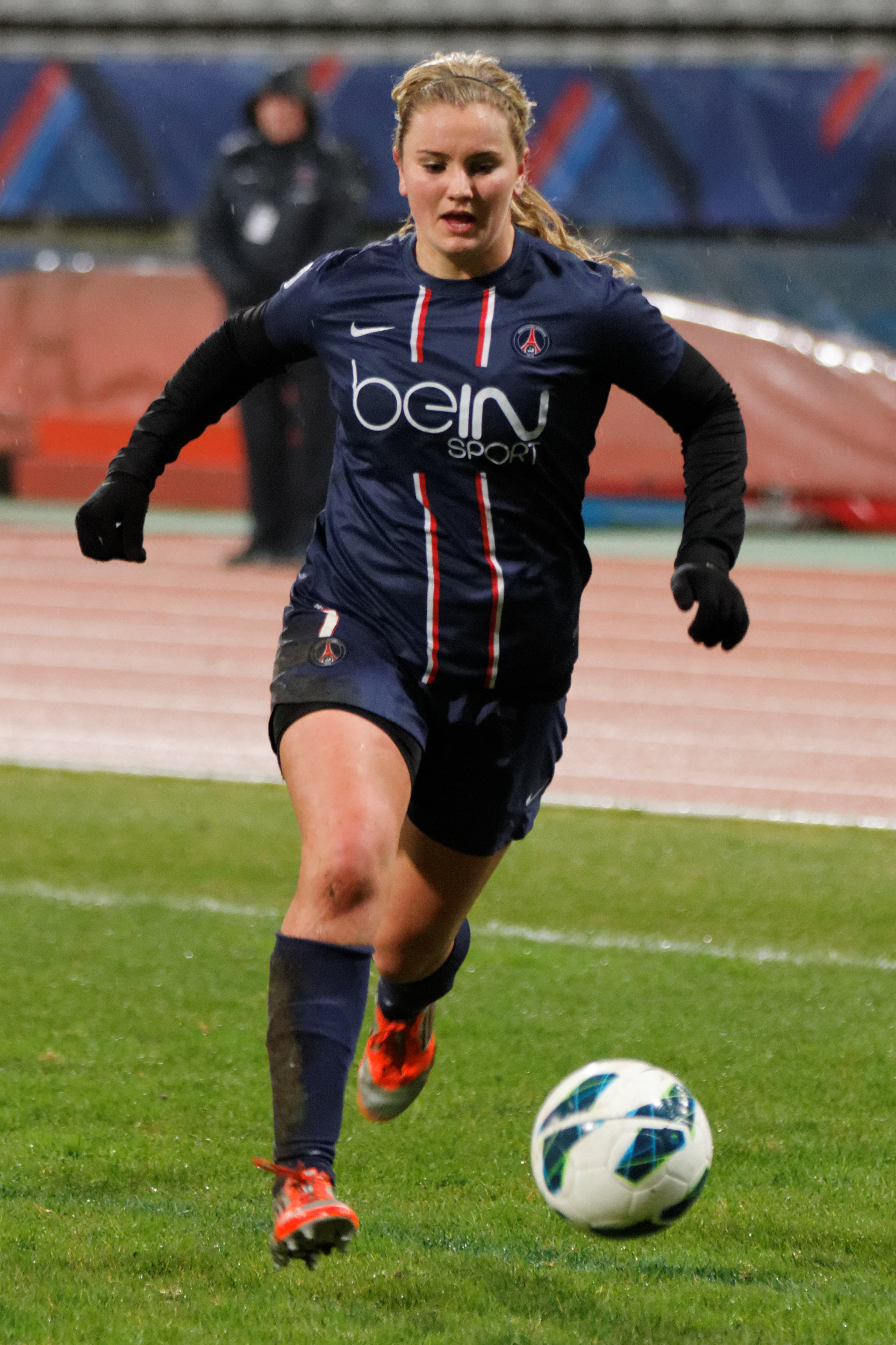 PSG-Montpellier, January 13th, 2013.